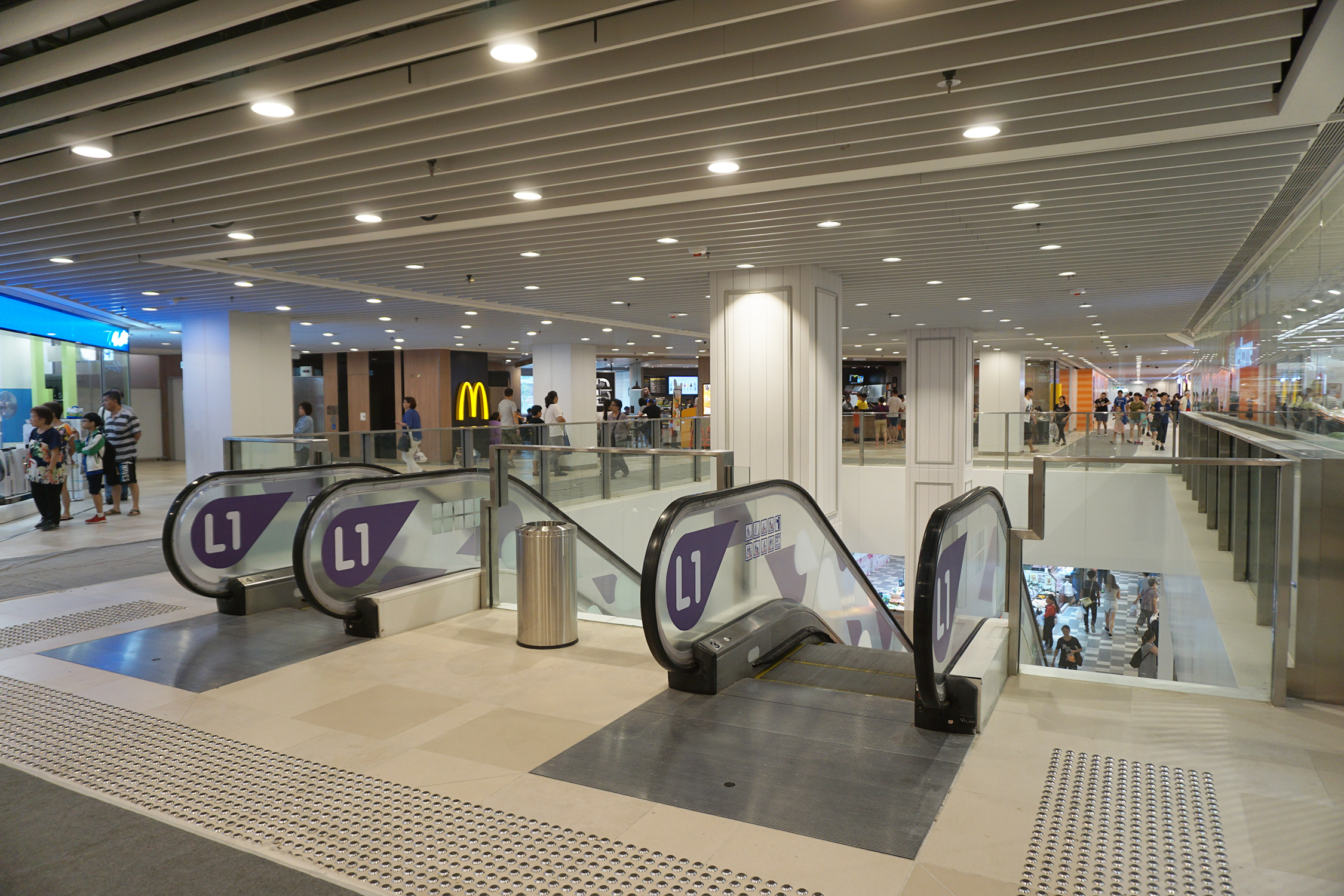 Nam Cheong Place in Sham Shui Po, Hong Kong.